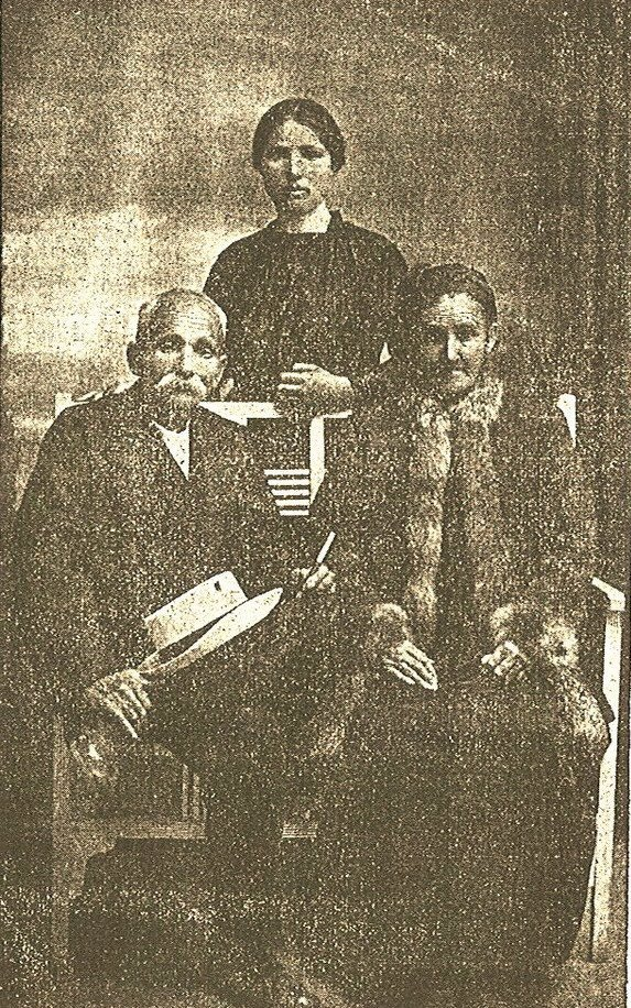 Isaya Mazhovski with his family